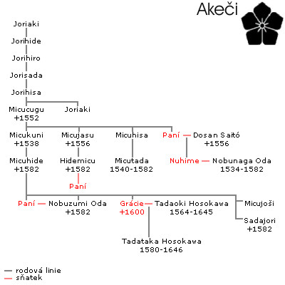 Family tree of Akechi Mituhide